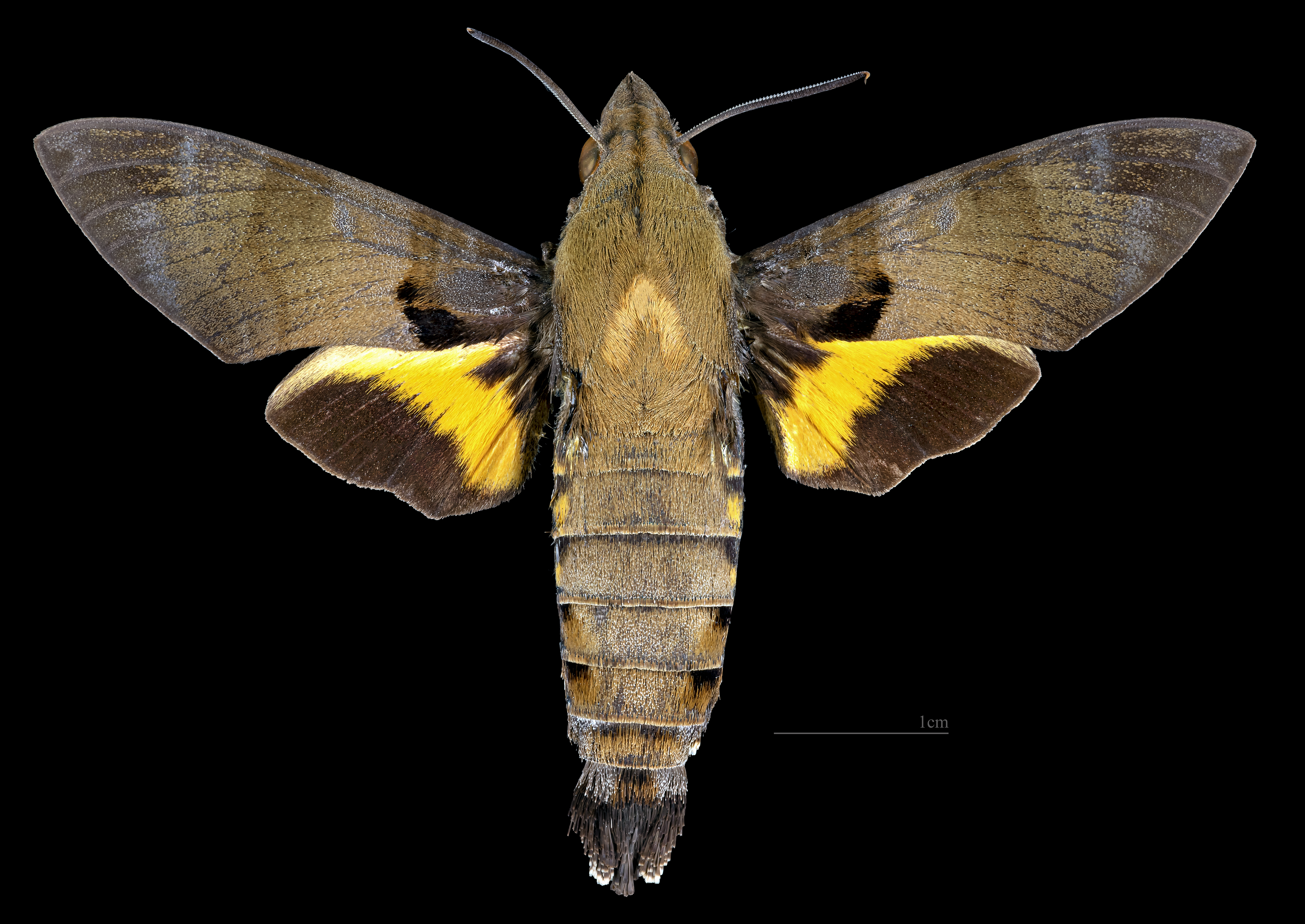 Macroglossum semifasciata - Dorsal side Collection of the Mathematician Laurent Schwartz